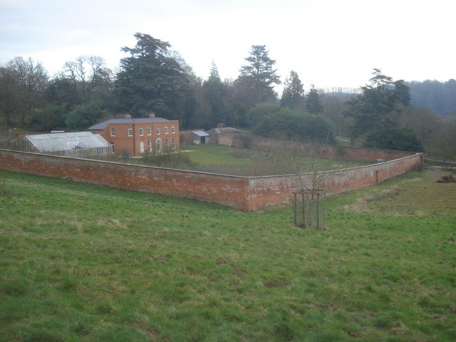 The walled garden at Hope End From the footpath looking eastwards to the walled garden and some of the specimen trees. The layout was designed by the famous Victorian landscaper and garden writer JC Loudon.